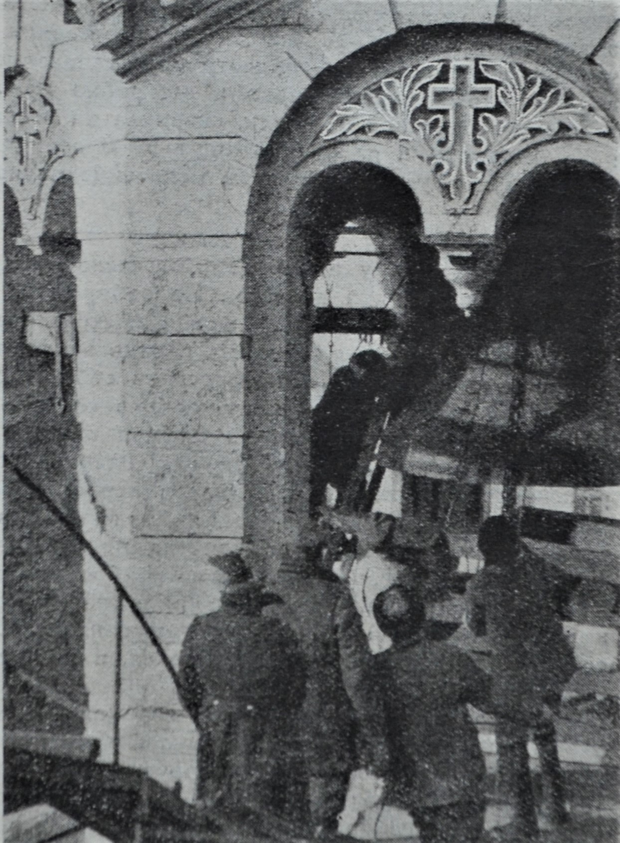 The anti-religious activists remove the large (5000 kg) bell from the St Volodymyr's Cathedral central Kiev USSR (now Ukraine). The caption reads: the precious metal will be used much more effectively elsewhere.